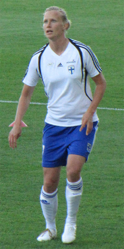 Anne Mäkinen during Finland - Northern Ireland friendly match.